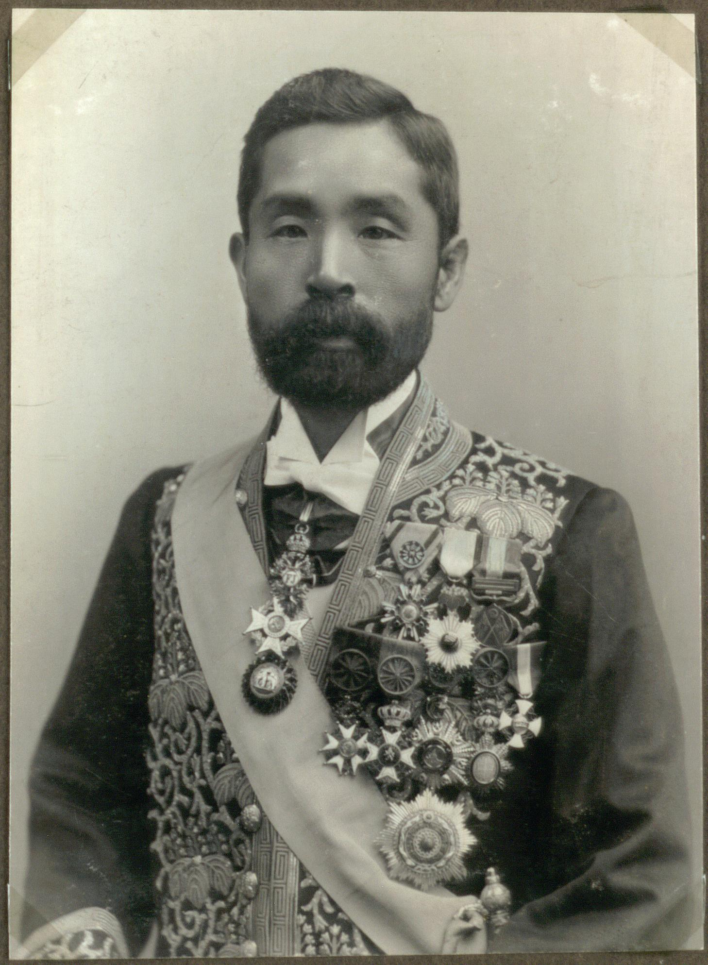 Photographer: Aldolphe Zimmermans, La Haye Portraits of Japanese which belonged to Commander and Valet de chambre B. Münter. No. es_b_00717a